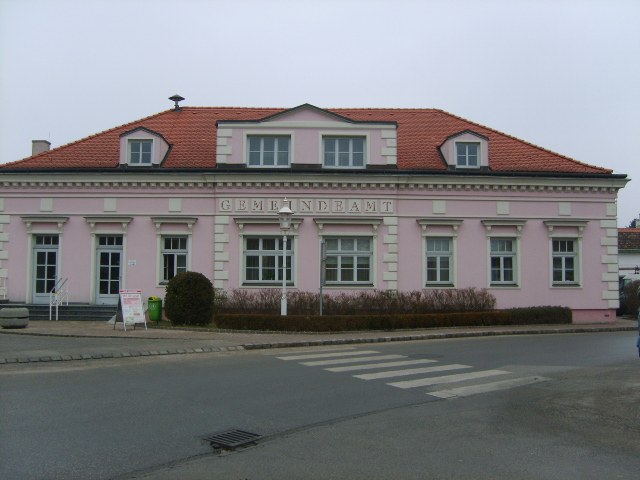 Municipal office in Oberwaltersdorf, Lower Austria, Austria